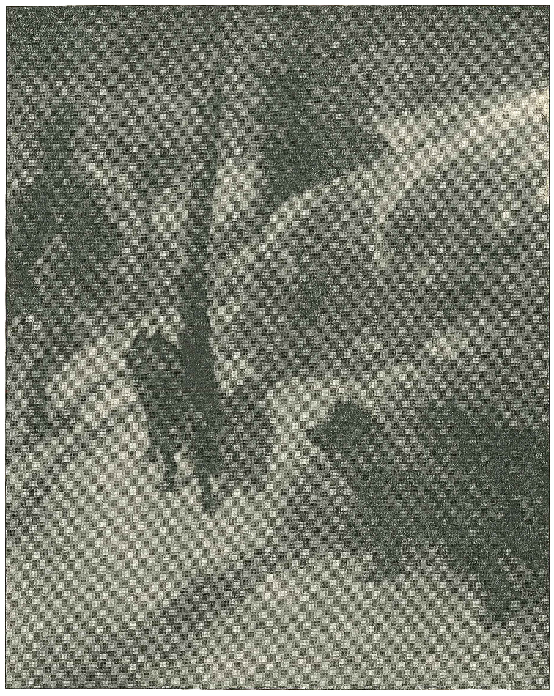 Wolves